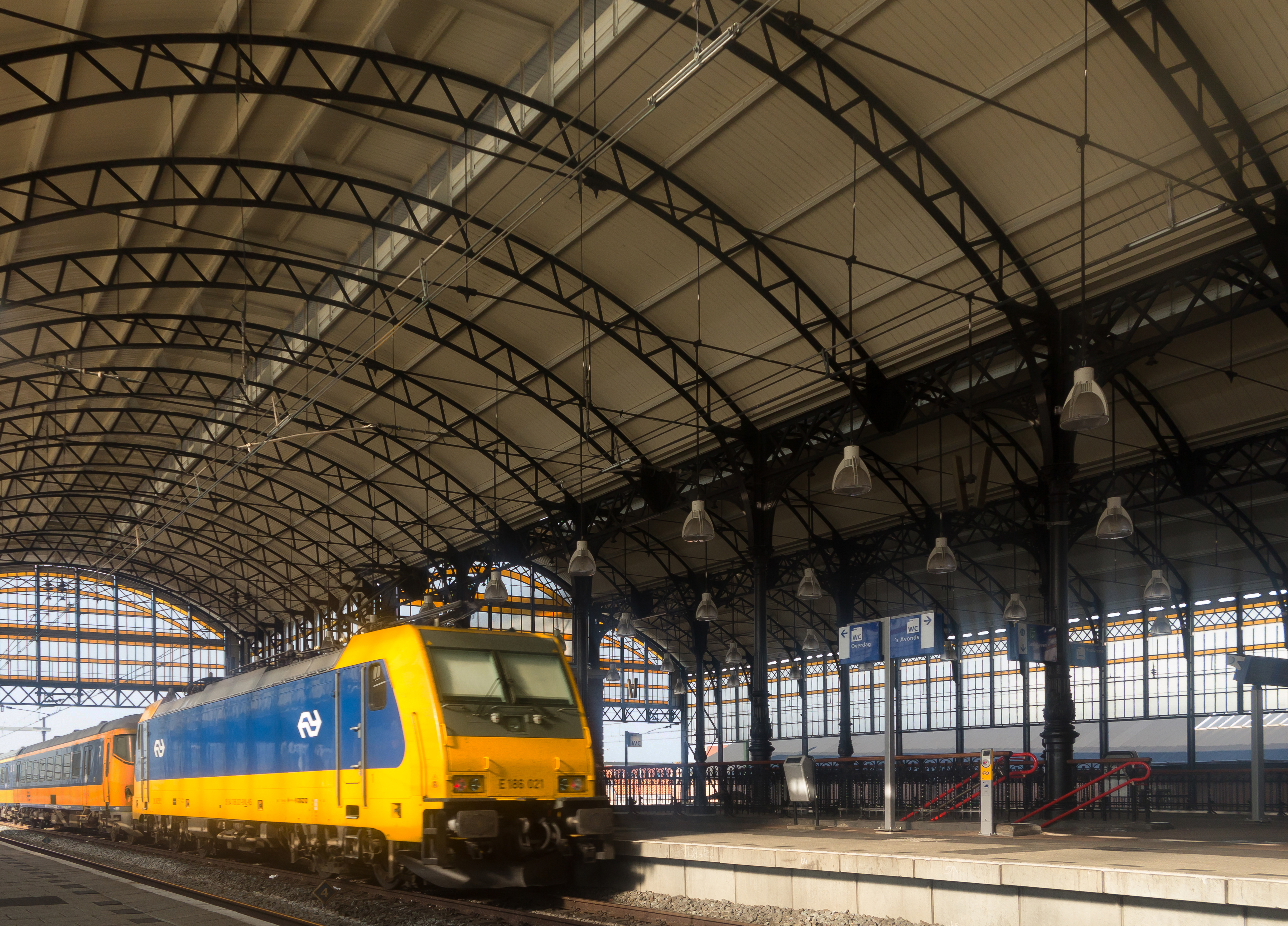 The Hague, leaving train at monumental railway station Den Haag Hollands Spoor